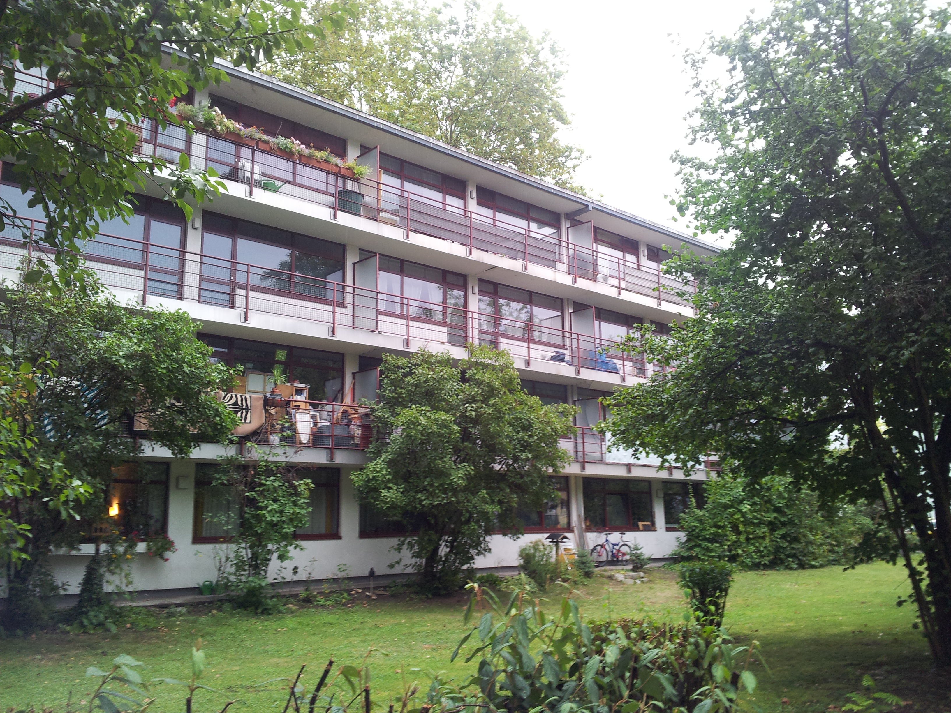 Appartment buildig for working women, designed by Bernhard Hermkes, 1930-31 for the "New Frankfurt"-project